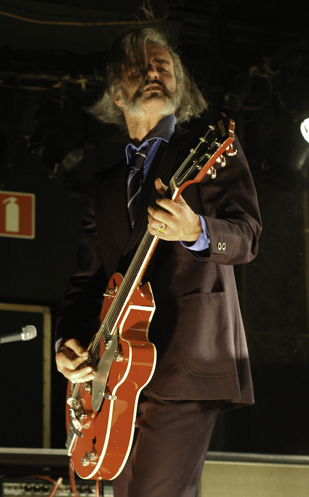 Ruben Block, singer and guitarist of Belgian rock band Triggerfinger. live in the club LVC in Leiden, Holland